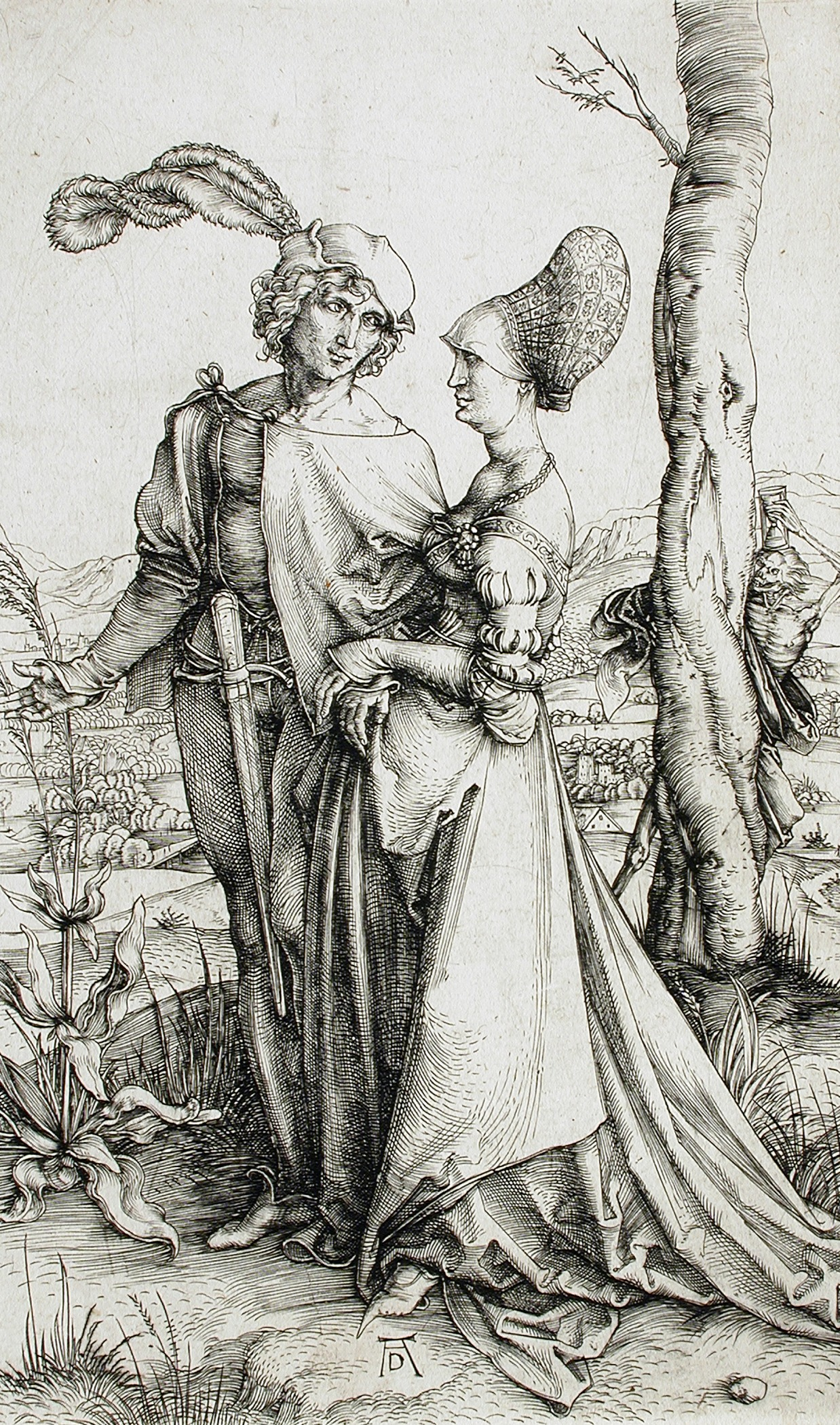 Germany, circa 1496-1498 Prints; engravings Engraving Purchased with funds provided by Michael J. Connell Foundation (M.85.53) Prints and Drawings